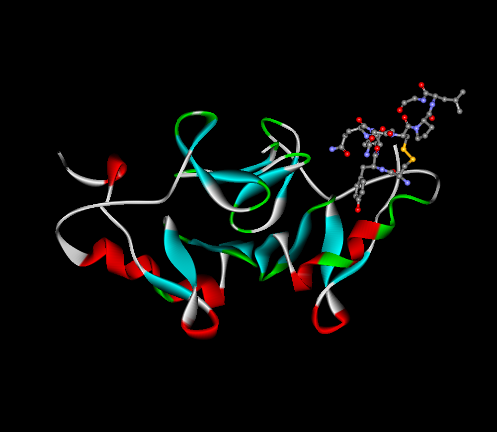 oxytocin-neurophysin complex based on: "Crystal structure of the neurophysin-oxytocin complex" Rose, J.P., Wu, C.K., Hsiao, C.D., Breslow, E., Wang, B.C. (1996) Nat.Struct.Biol. 3: 163-169